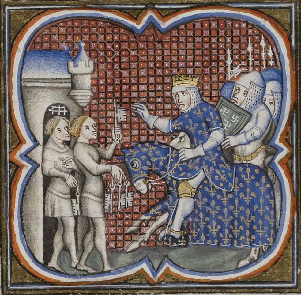 Albigensian Crusade 1226: Conquest of Avignon by Louis VIII of France. (BnF, MS M.536 fol. 228r)